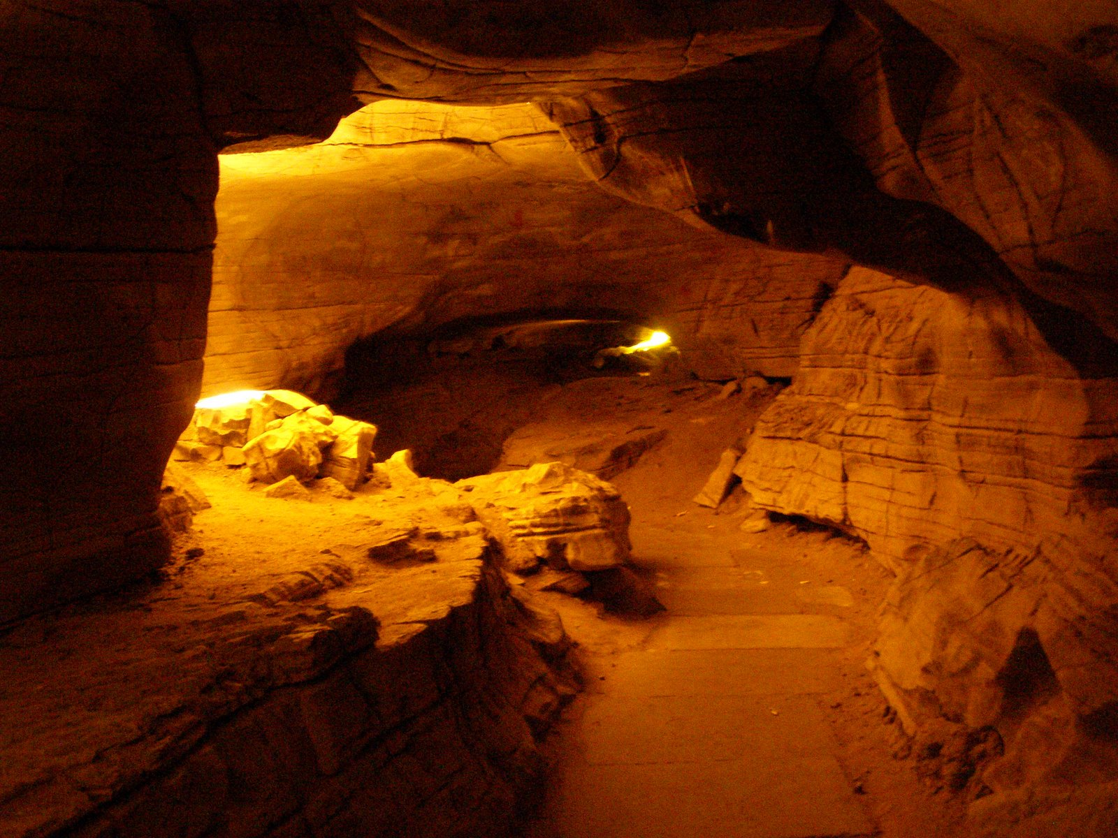 Section known as Meditation Hall inside Belum Caves. Buddhist relics were found here.